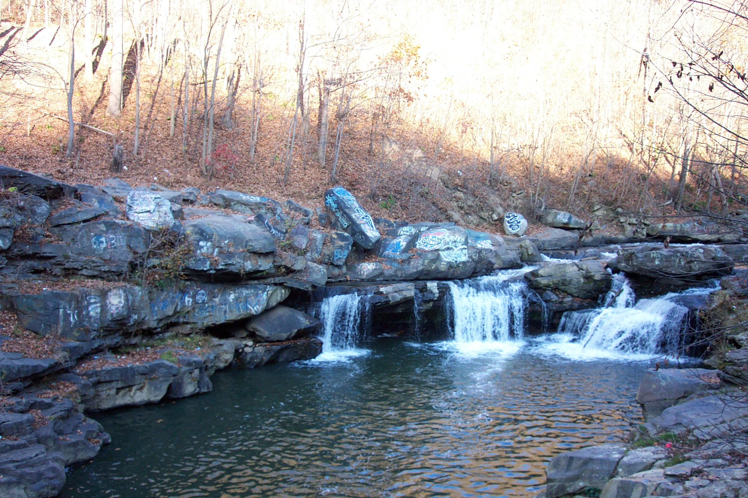 Creek Falls.jpg